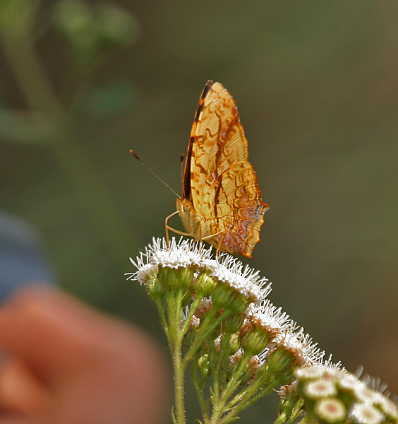 Common Jestor Symbrenthia hippoclus at Samsing in Darjeeling district of West Bengal, India.